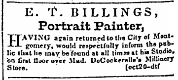 Newspaper item related to portraitist E.T. Billings, Montgomery, Alabama